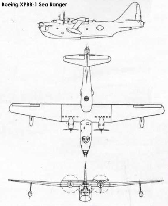 Line drawings for the Boeing XPBB-1 Sea Ranger.